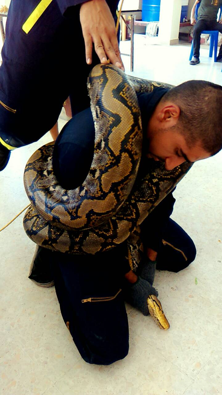 A wildlife rescue member extracts a 4 meter reticulated python in Bangkok Thailand.